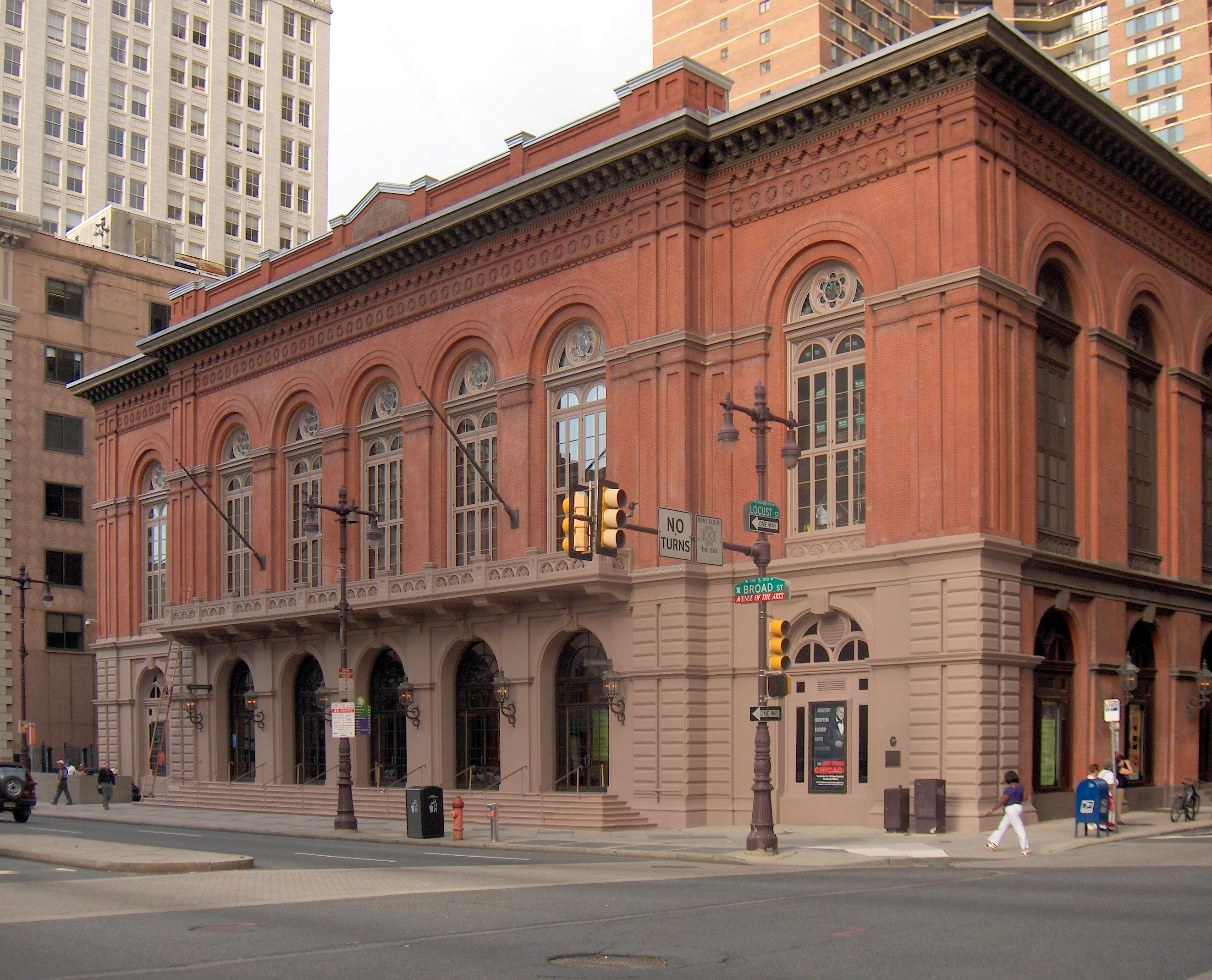 American Academy of Music, Southwest corner, Broad and Locust Sts., Philadelphia, Pennsylvania, USA 19102 View from the Northeast corner, Broad and Locust Sts. Added to NRHP: October 15, 1966 Designated NHL: December 29, 1962 NRHP Reference#: 66000674 Opened in 1857, this is the country's oldest musical auditorium retaining its original form and serving its original purpose. Architect Napoleon Le Brun was influenced by European opera houses, and designed an auditorium famed for its acoustical properties and fine sight lines. The "Grand Old Lady of Broad Street" has been the home of the Philadelphia Orchestra from 1900 to 2001. Coordinates: 39.9480111°N 75.165111°W